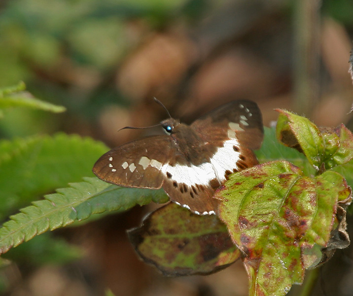 Himalayan Snow Flat Seseria dohertyi at Jayanti in Buxa Tiger Reserve in Jalpaiguri district of West Bengal, India.